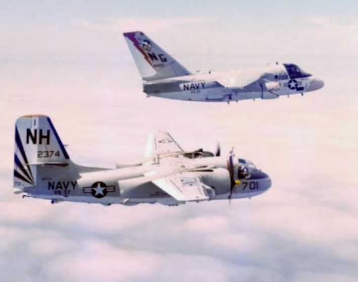 Change of guards over Naval Air Station North Island, California (USA) on 28 July 1976: a U.S. Navy Grumman S-2G Tracker (BuNo 152374) of anti-submarine squadron VS-37 Sawbucks, assigned to Carrier Air Wing 11 (CVW-11) aboard the aircraft carrier USS Kitty Hawk (CV-63) (foreground), accompanied by its successor, the Lockheed S-3A Viking (BuNo 159402) of VS-21 Redtails, CVW-9, USS Constellation (CV-64). The S-3A 159402 was later modified to an S-3B and crashed on 10 September 2002 while acting as refuelling aircraft off the coast of Puerto Rico, operating from the USS Harry S. Truman (CVN-75) with VS-22 Checkmates, CVW-3. The crew of three was killed.